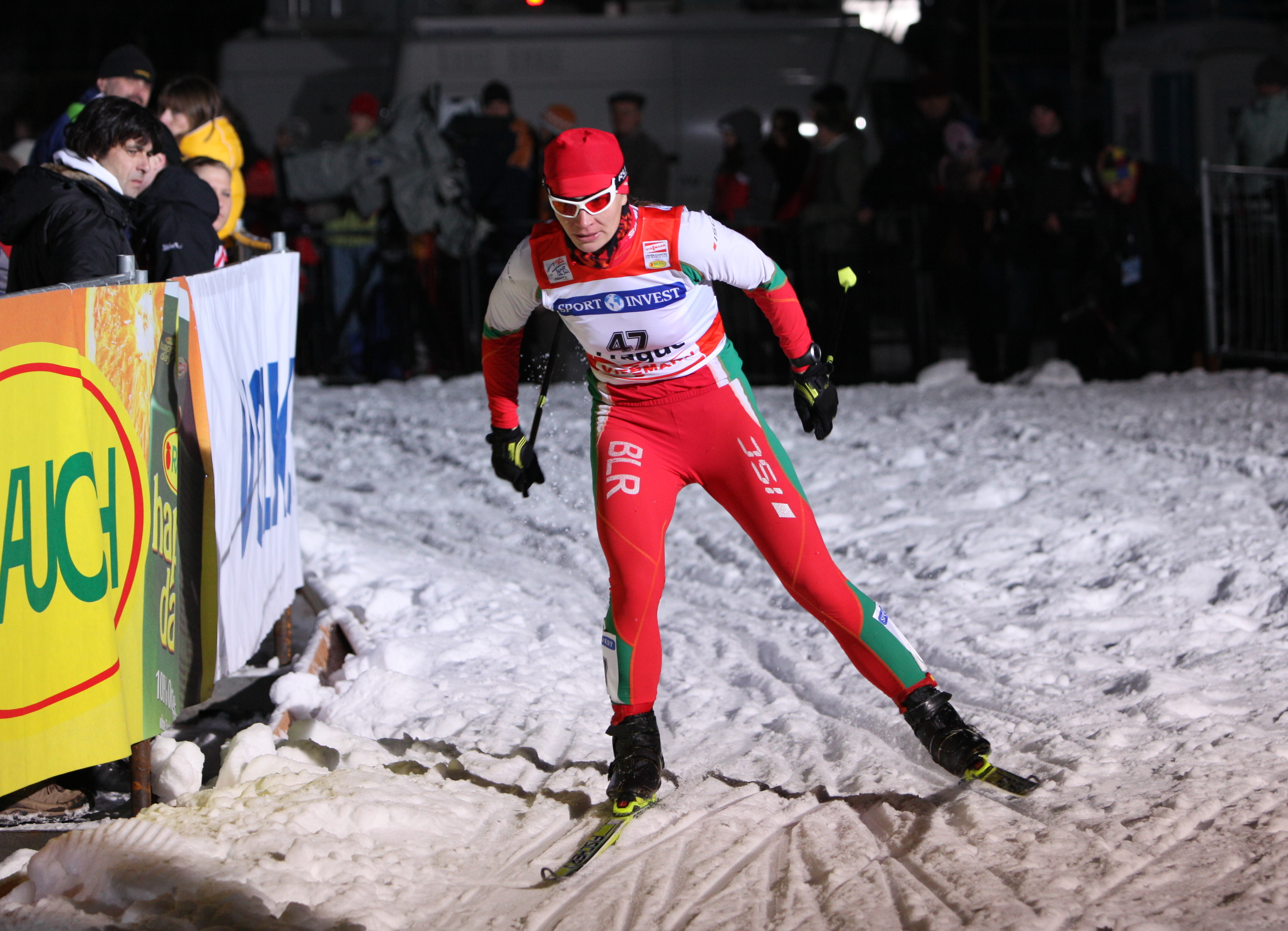 Olga Vasiljonok competes at Ski Sprint Praha in 2010